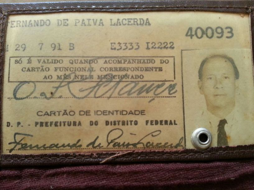 Fernando de Paiva Lacerda - professional idenification